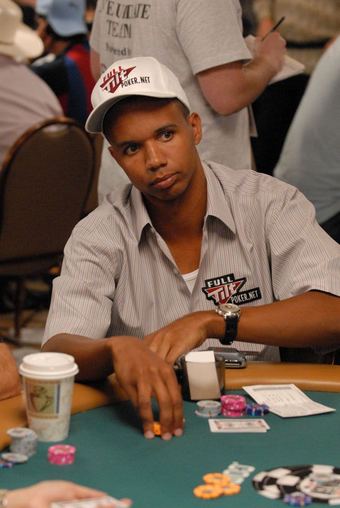 Phil Ivey in 2007 World Series of Poker - Rio Las Vegas.